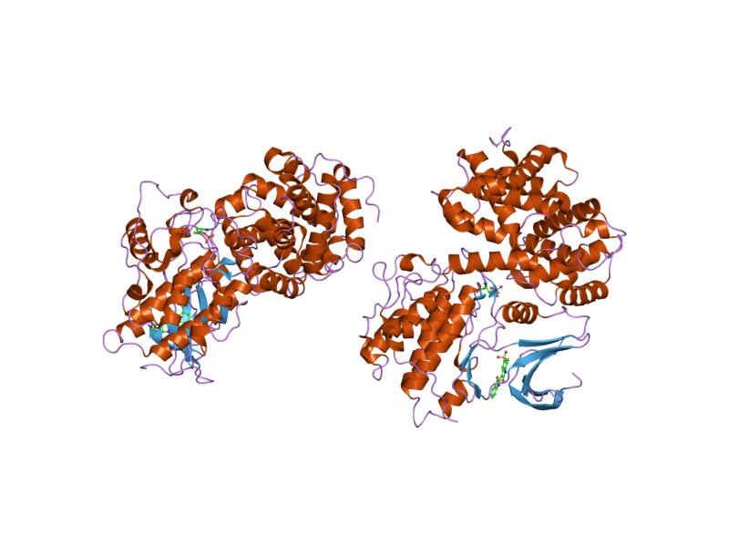 Cartoon representation of the molecular structure of protein registered with 1e9h code.